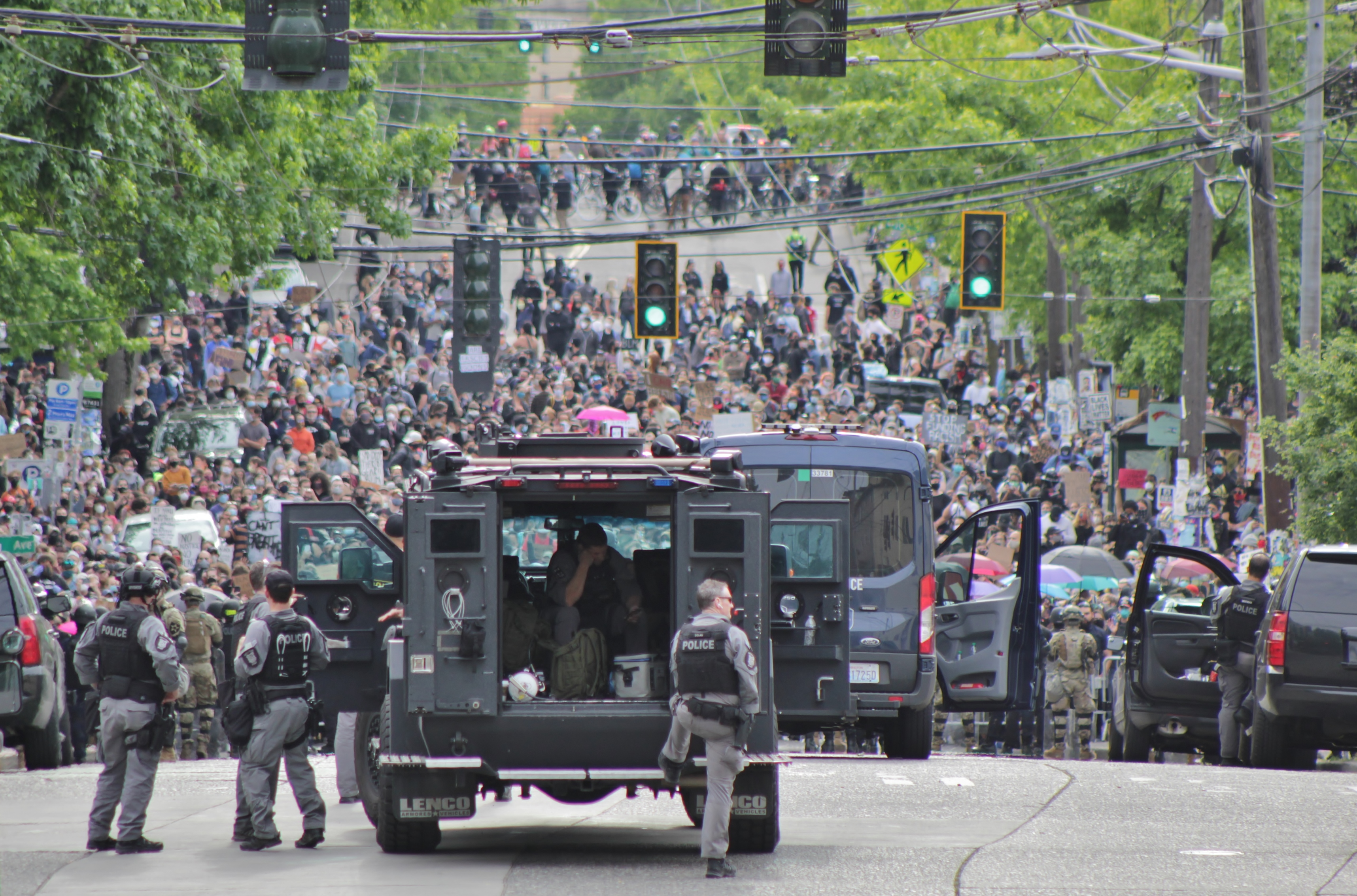 A Seattle Police Department van deployed as part of the George Floyd protests on Capitol Hill in Seattle.